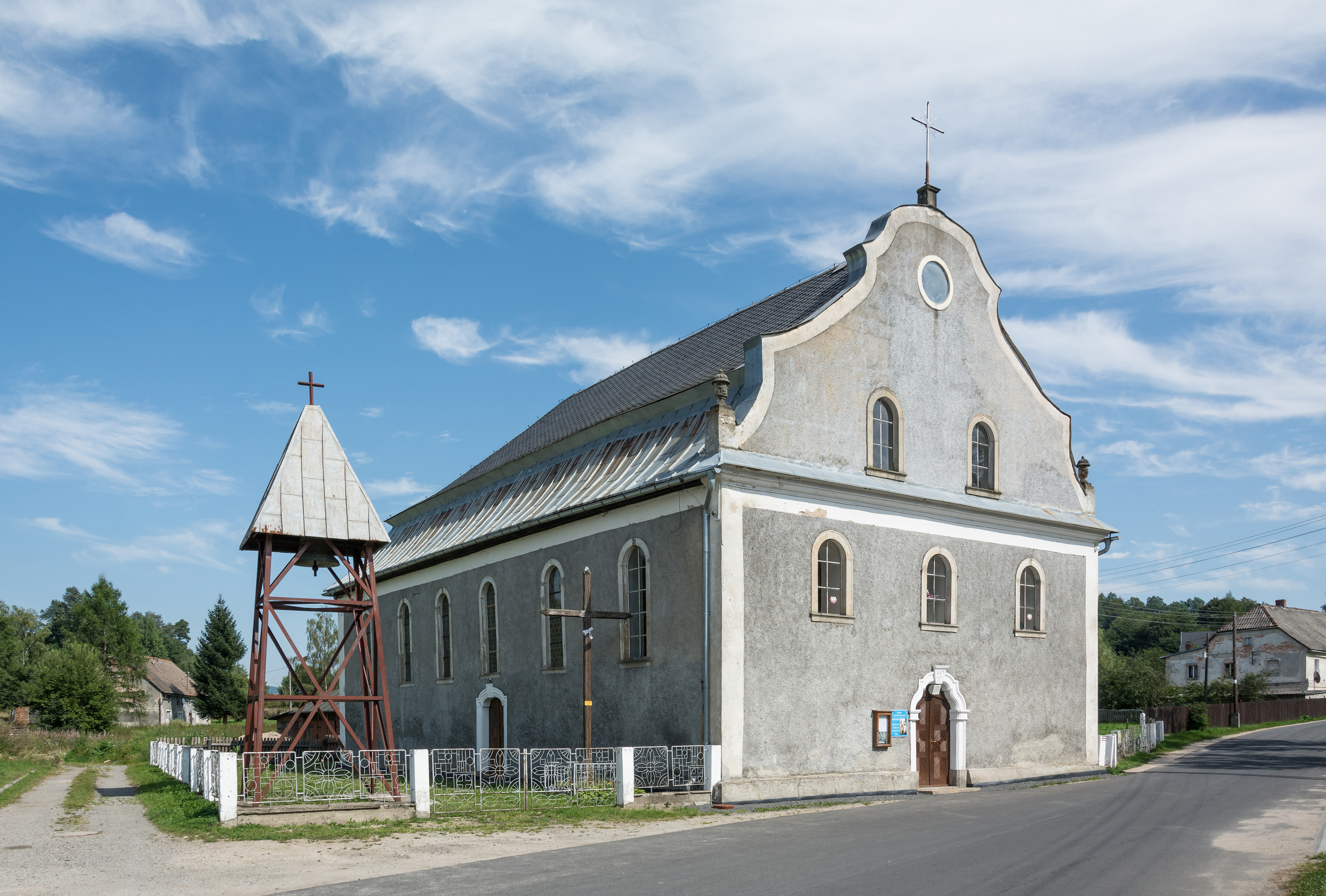 Saint John the Baptist church in Bukowiec